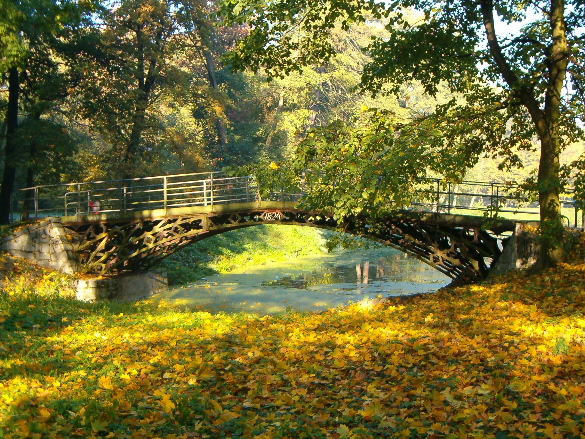 Pont in the Park (in Opatówek)